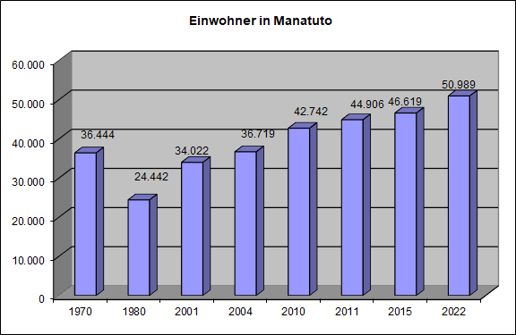 Population in Manatuto/East Timor